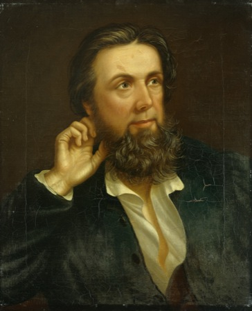 Welsh-language poet John Jones ("Talhaiarn") (1810-1869). Portrait by William Roos. 1864. Oil on canvas. National Museum of Wales collections.